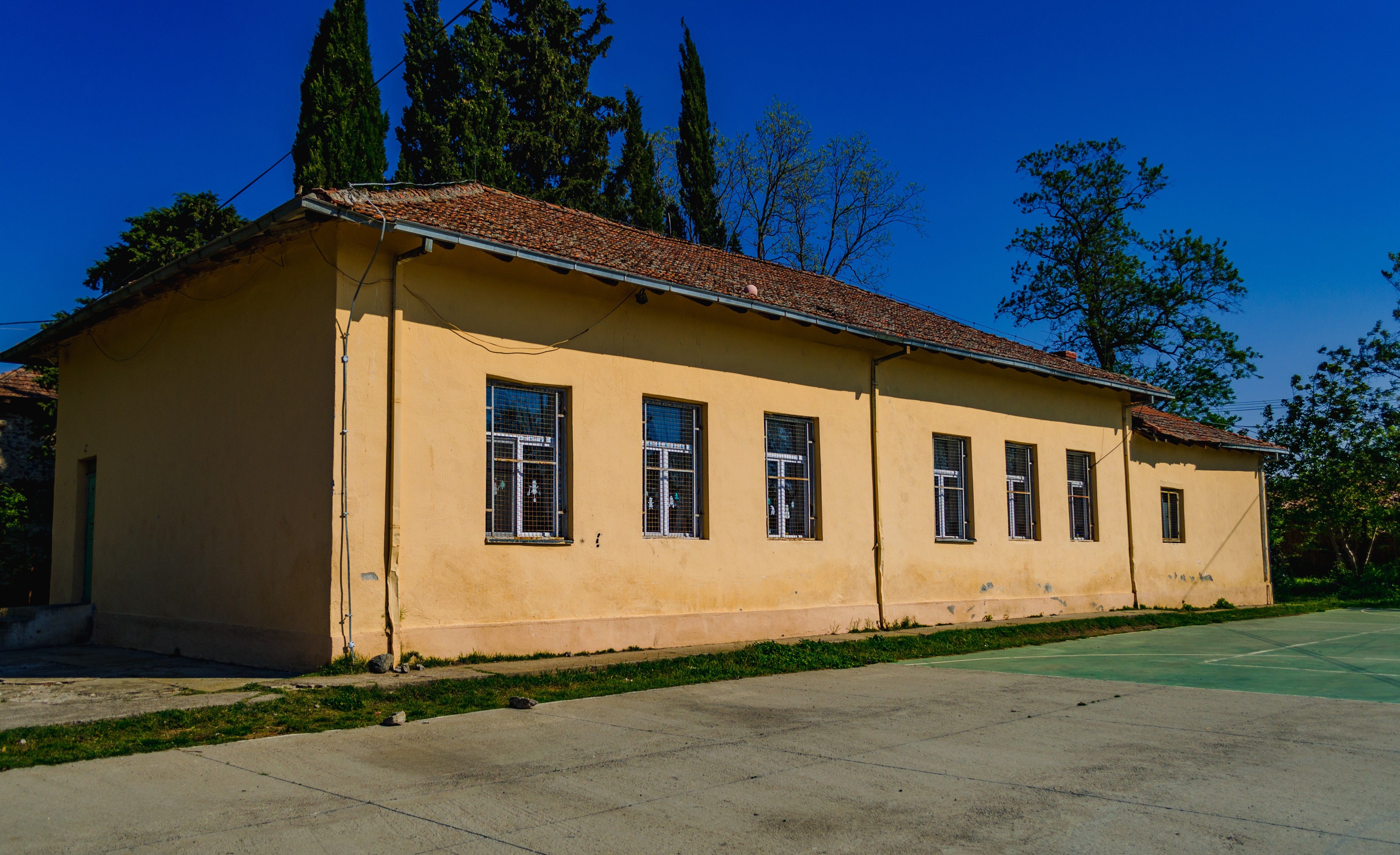 Primary school in the village Moin